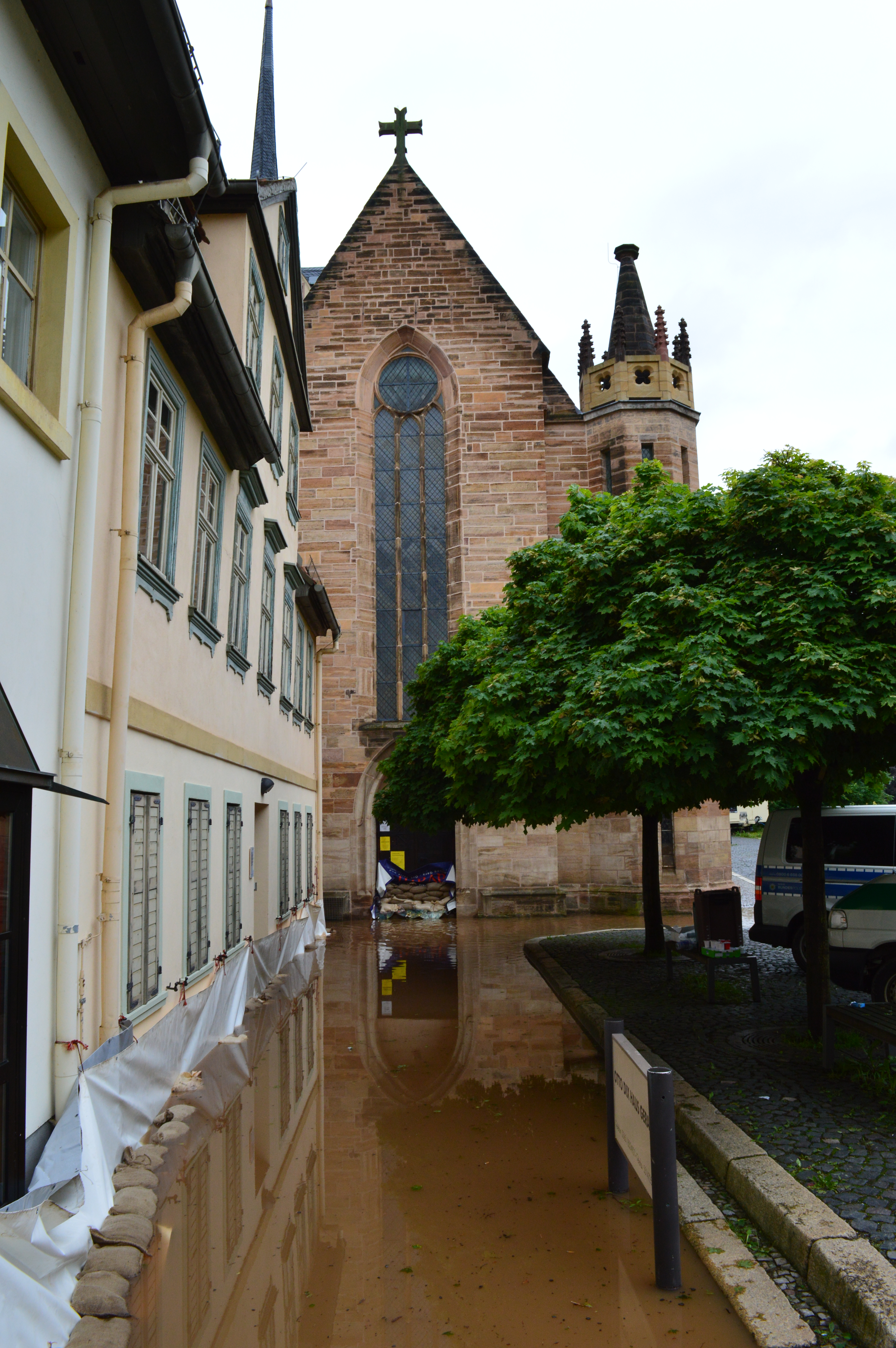 The Gera district of Untermhaus during the flood on 3 June 2013: Otto-Dix-Haus and Marienkirche